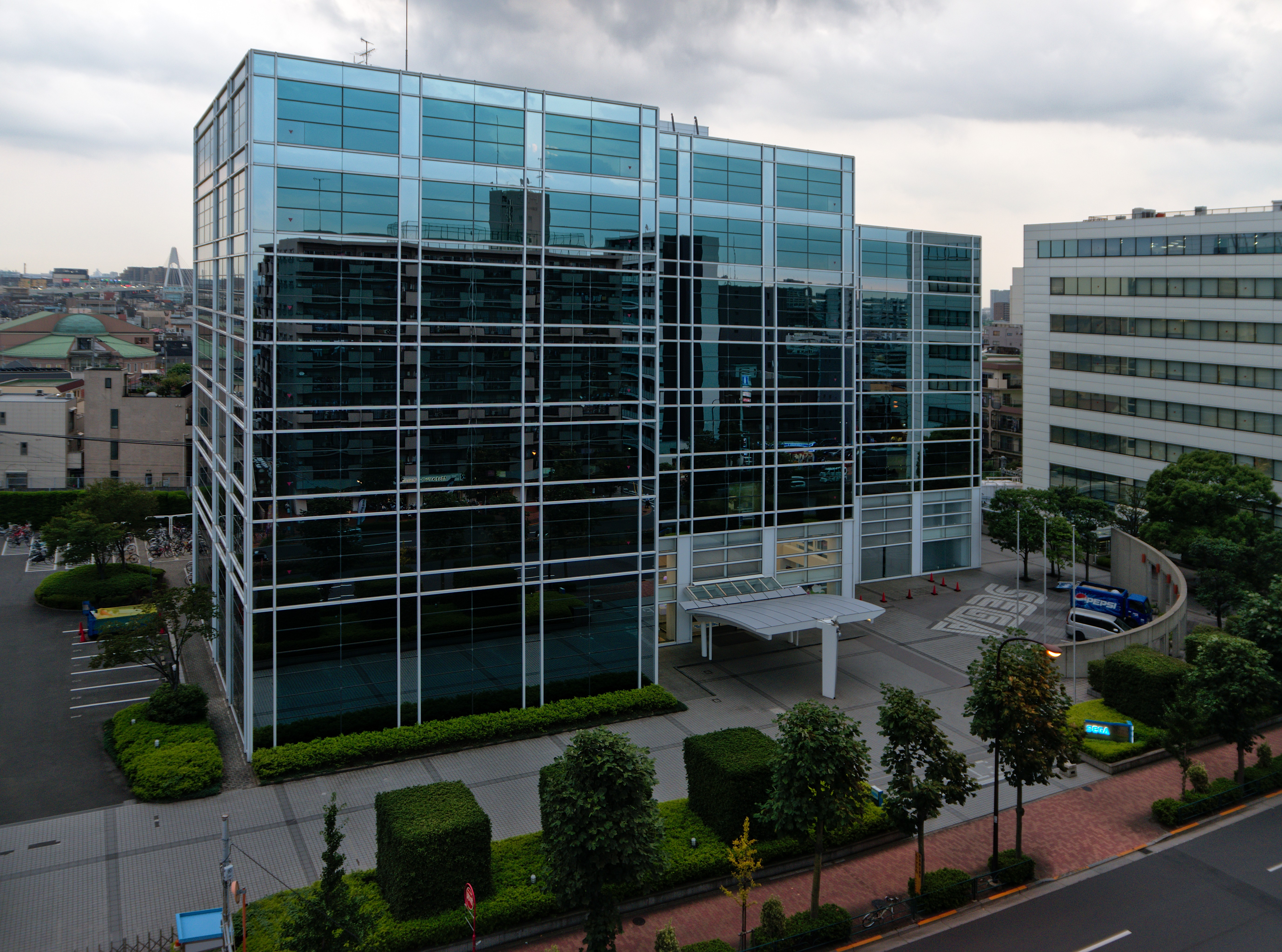 Sega HQ first office at Kampachi-dori, in Haneda, Japan.